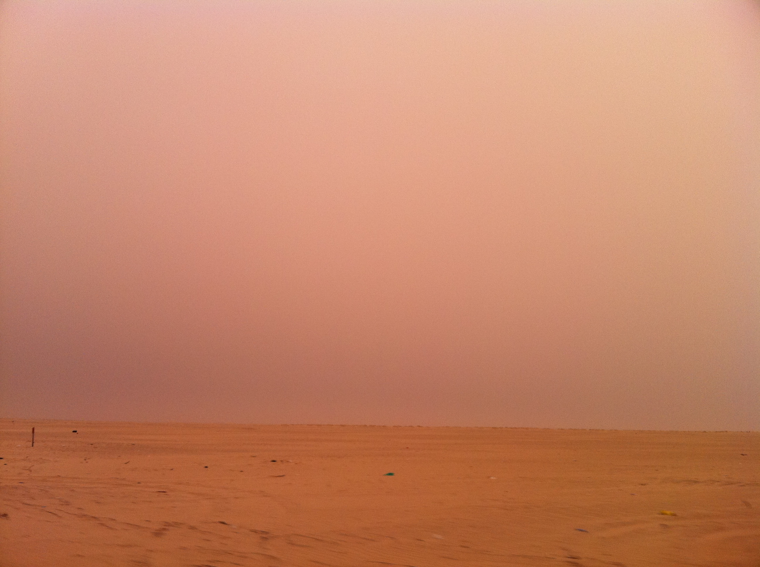 a picture taken in the desert of kuwait during a sandstorm